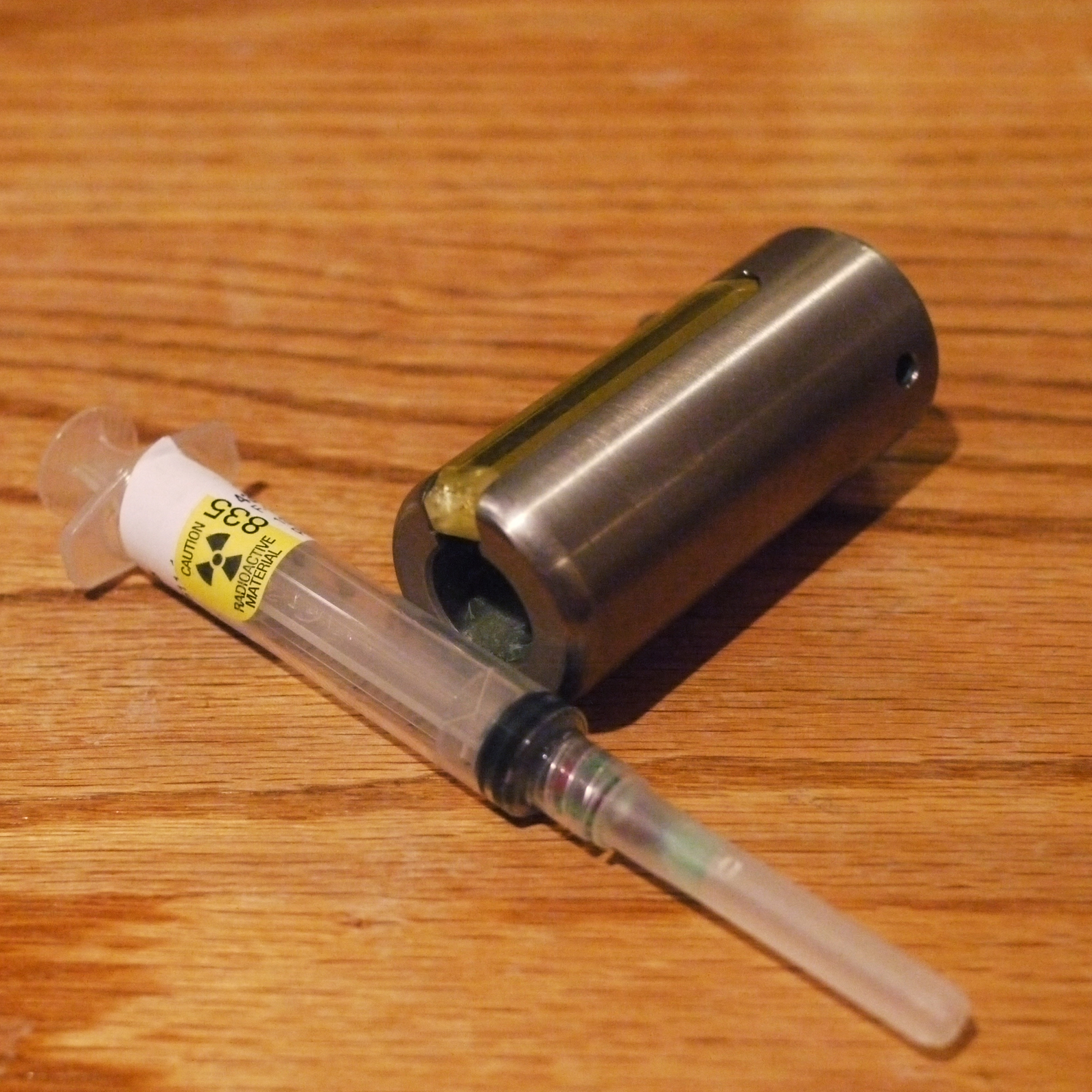 For the PET scan, a serum of radioactive glucose is injected 45 minutes prior to loading me into the machine. The idea is that cancer cells eat a lot more than normal cells, so they show brighter on the scan. I guess that different radioactive tracers can be used depending on what you're looking for, but currently, the most common use is the detection of tumors. The nurse warned me that I should avoid small children for the rest of the day. I guess that you remain slightly radioactive till the tracer isotopes decay, which takes a day or so. After being injected, I was left to read for 45 minutes in a comfy leather recliner. The actual scan takes about half an hour. You lie down on a big plank that rises up so that you're centered in the detector donut. Then is slides you through for a quick CT scan that is done so that they can super-impose the PET Scan results over CT imagery of you in the same position. For the PET phase of scanning, the plan moves a little bit and then pauses for about 3 minutes. There was a radio tuned to some top-40 station. I would have preferred NPR, but I didn't think to ask anyone to change it before they started scanning. Fun fact from wikipedia, a PET scan exposes you to about as much ionizing radiation as you would absorb in a decade from background sources.